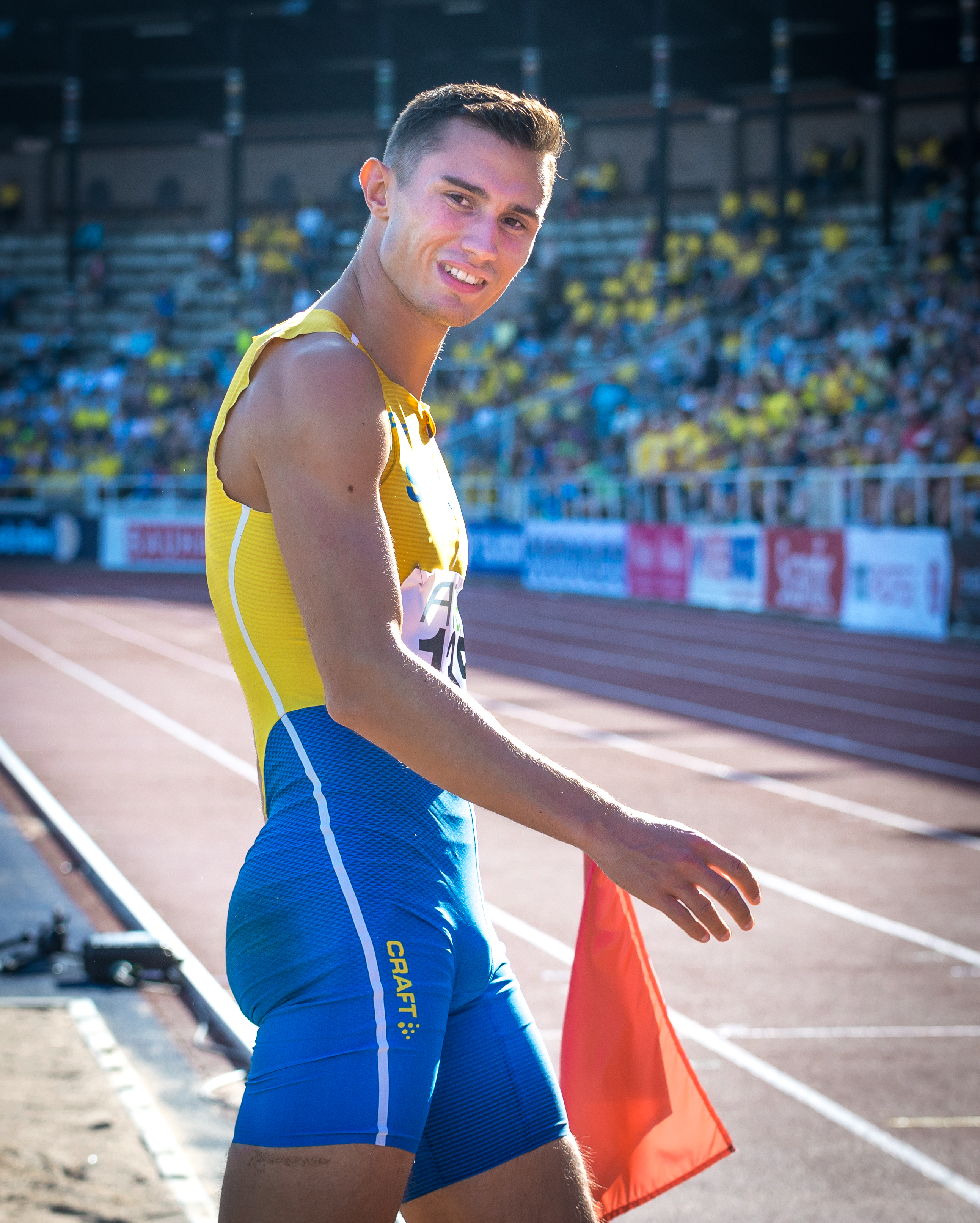 Thobias Nilsson Montler during the Finland-Sweden athletics international 2019 at the Stockholm Stadium in August 2019.